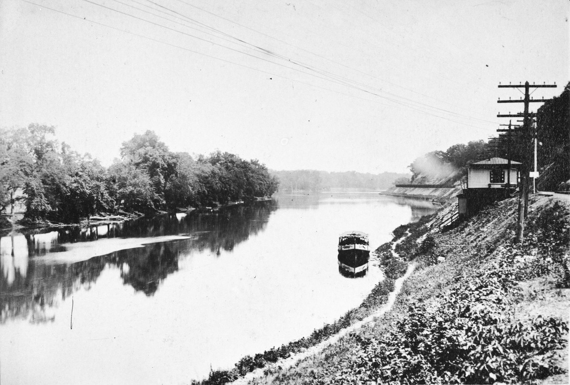 Valley Forge Station (circa 1910), Reading Railroad, Schuylkill River, Valley Forge, Pennsylvania. The current Valley Forge Station (which replaced this) was built in 1911